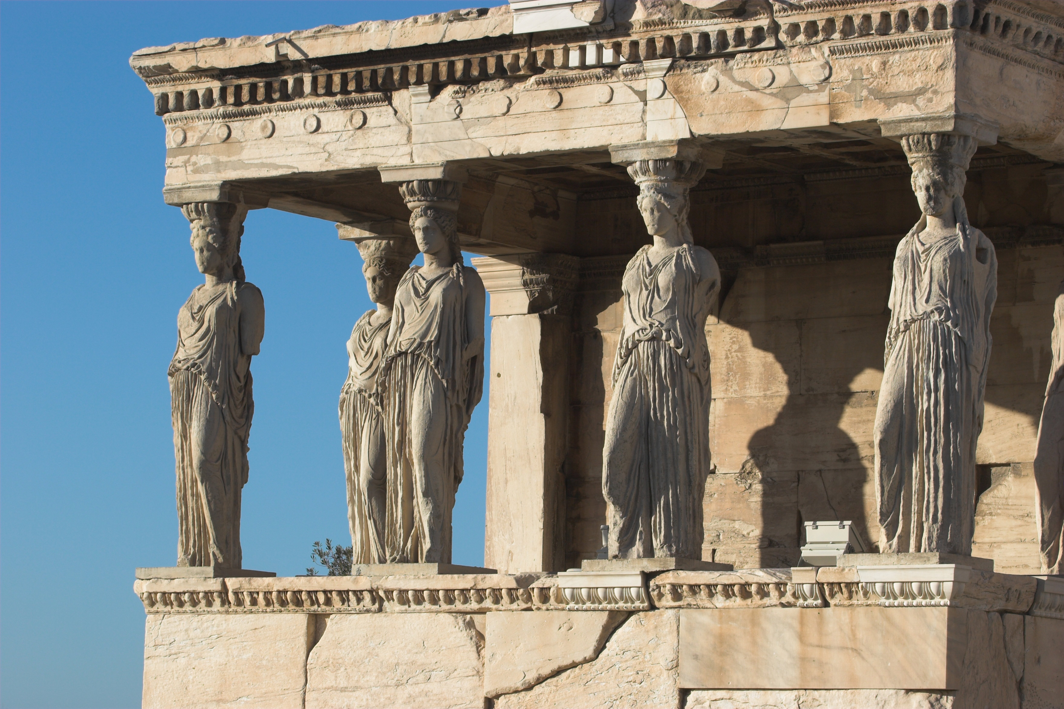 A picture of the Porch of Maidens. Photographer: Thermos.